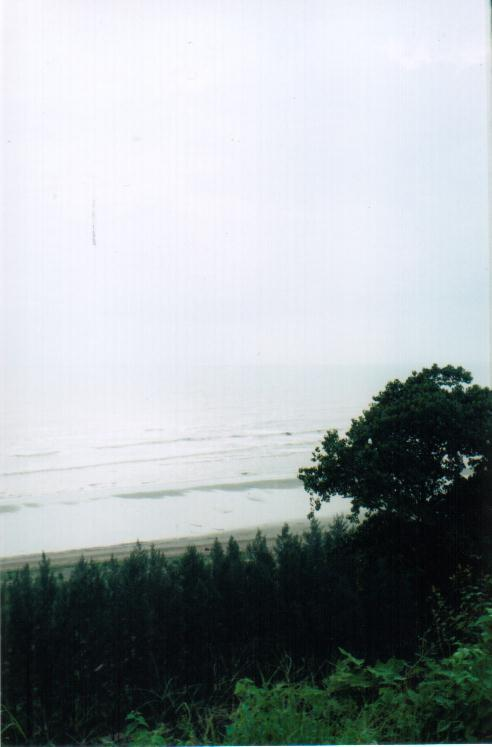 Location: Himchhari hils, Cox'sbazar, Bangladesh author: Muntasir Alam Source: Own